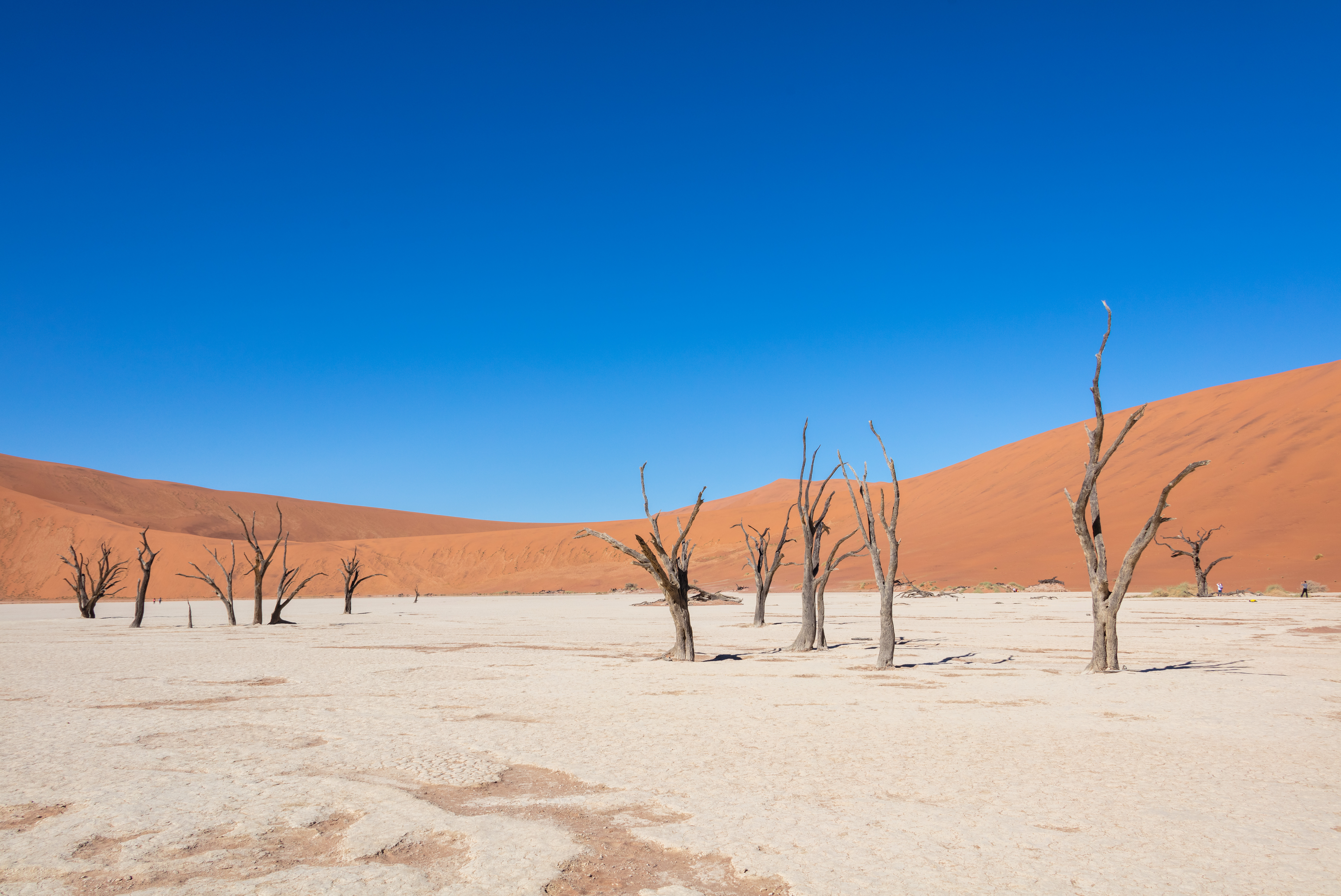 Dead Vlei, Sossusvlei, Namibia